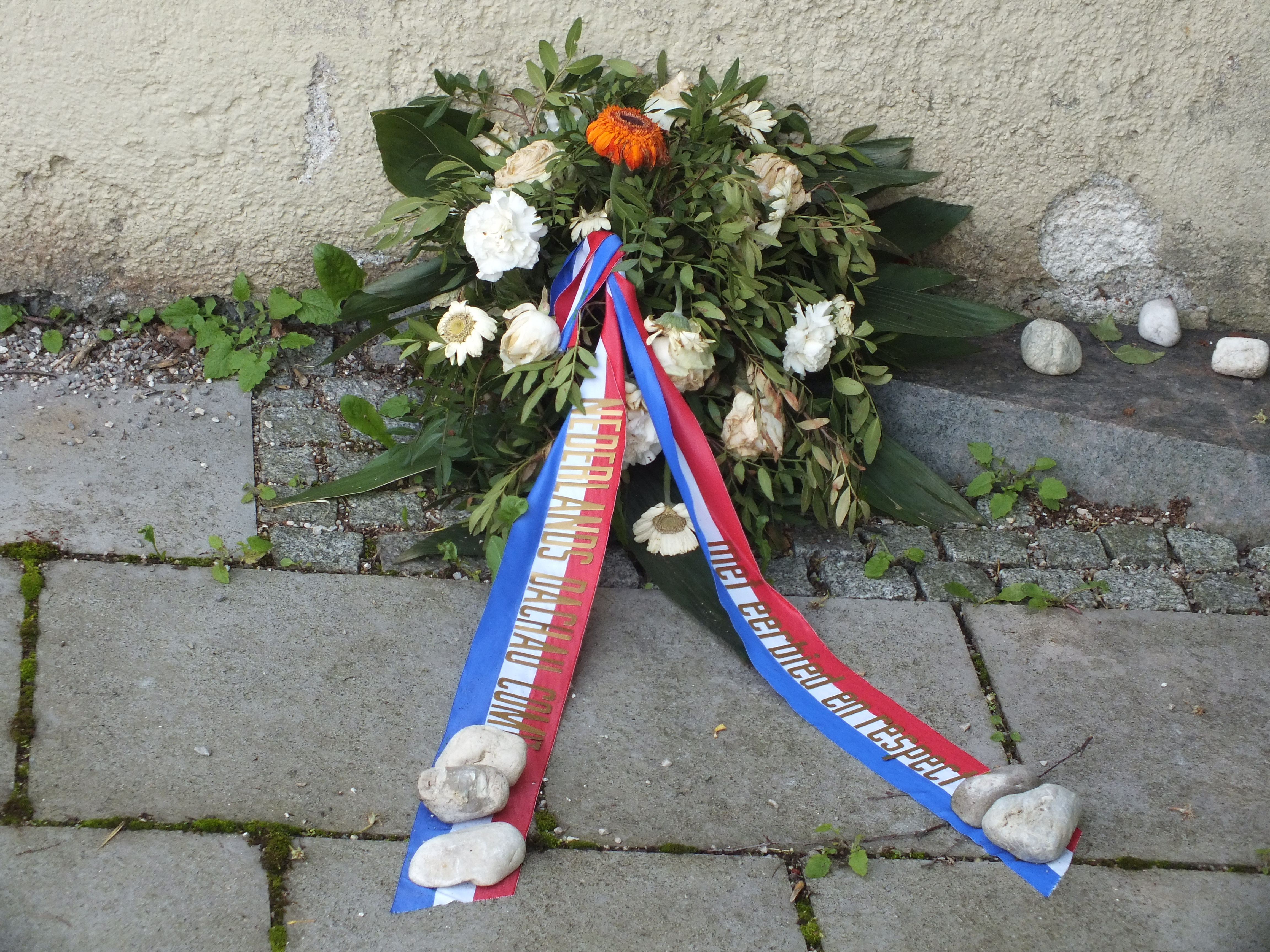 Last existing buildings of subcamp Allach of Nazi concentration camp Dachau, location Munich, Granatstraße 8 + 10